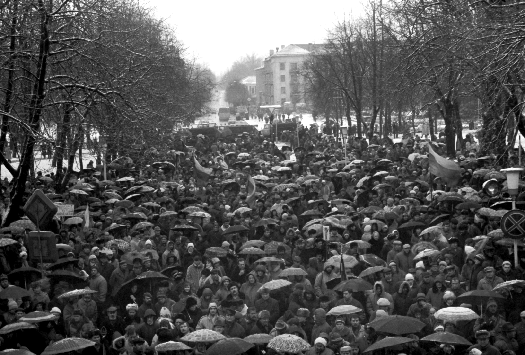 Šiauliai, Lithuania, 1991-01-13